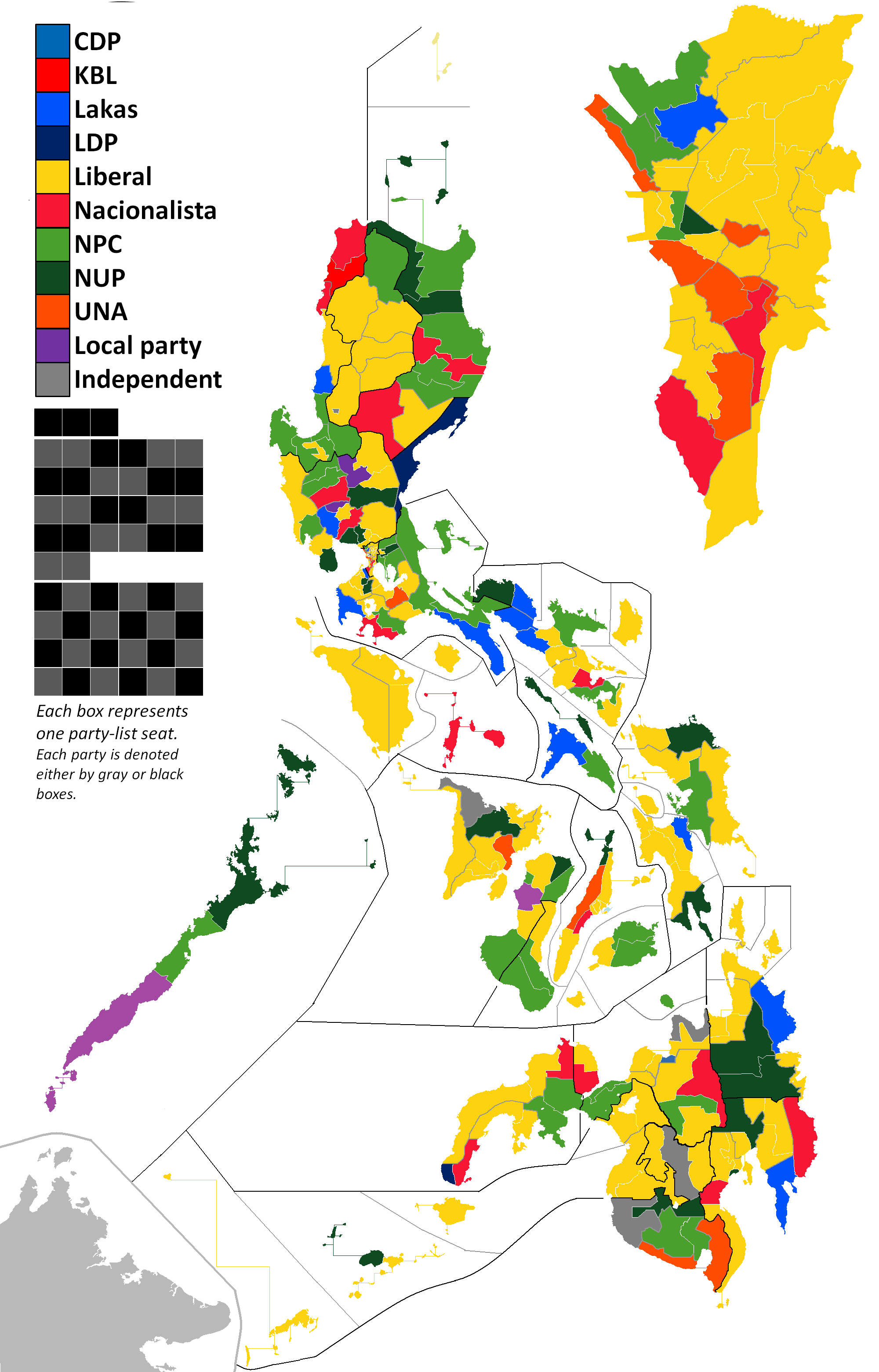 Party standings in the 16th Congress of the Philippines.